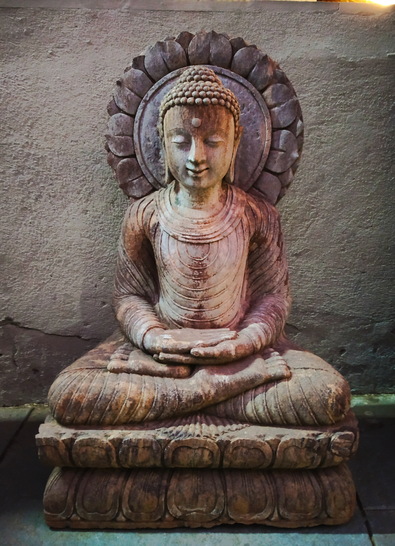 Buddha stone carving at Shilparaamam